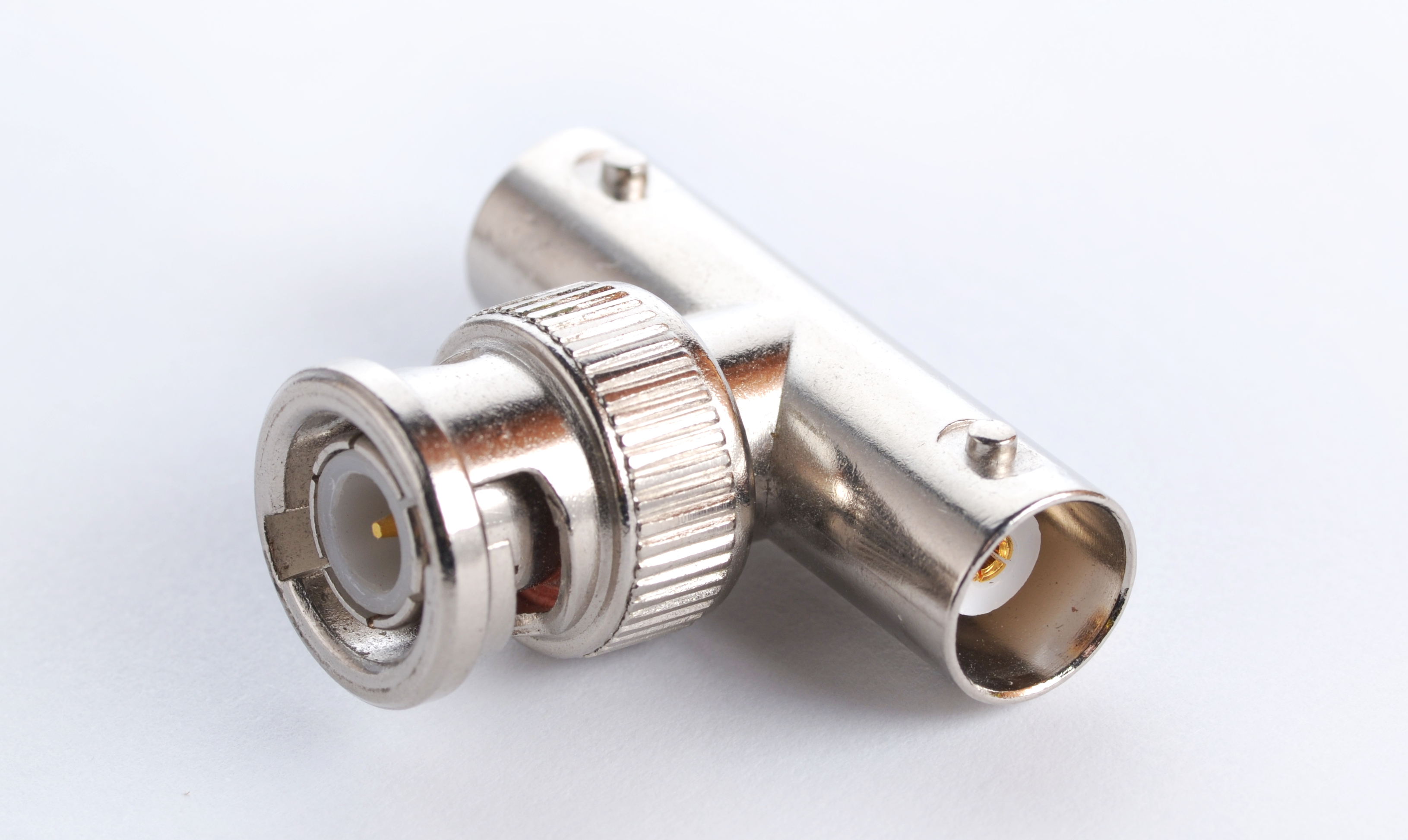 A BNC T piece